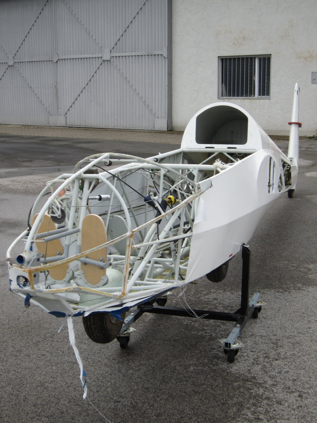 The metal skeleton of a Schleicher ASK 13 glider.